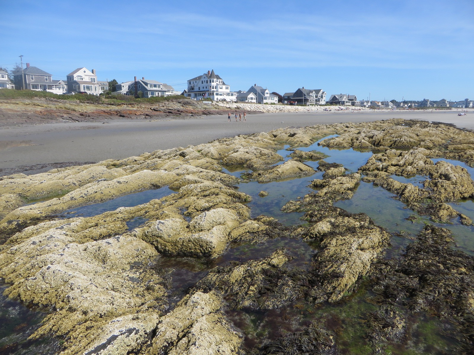 Higgins Beach in Maine, September 2015